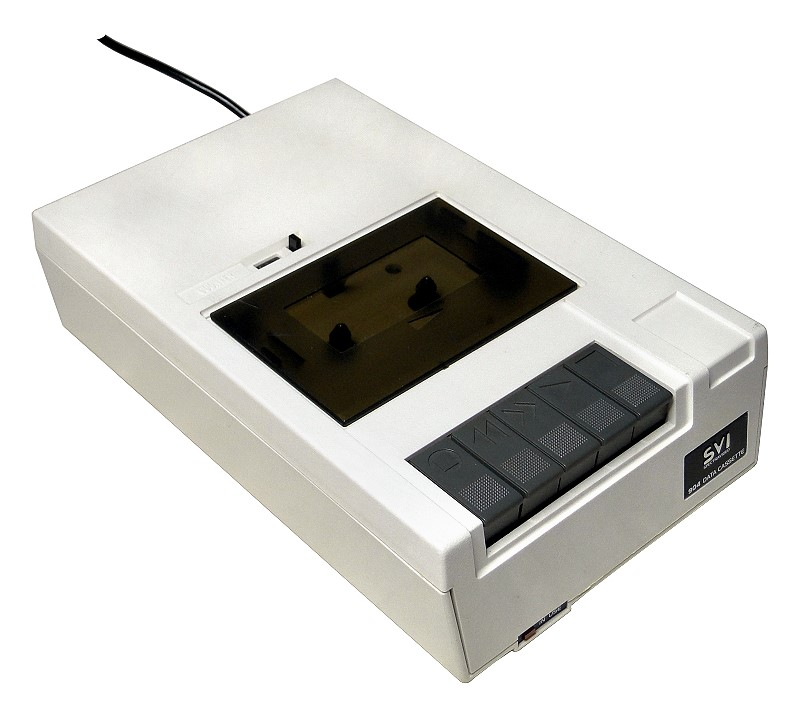 Spectravideo SV 904 tape drive for Spectravideo SV 318 and SV 328 computers